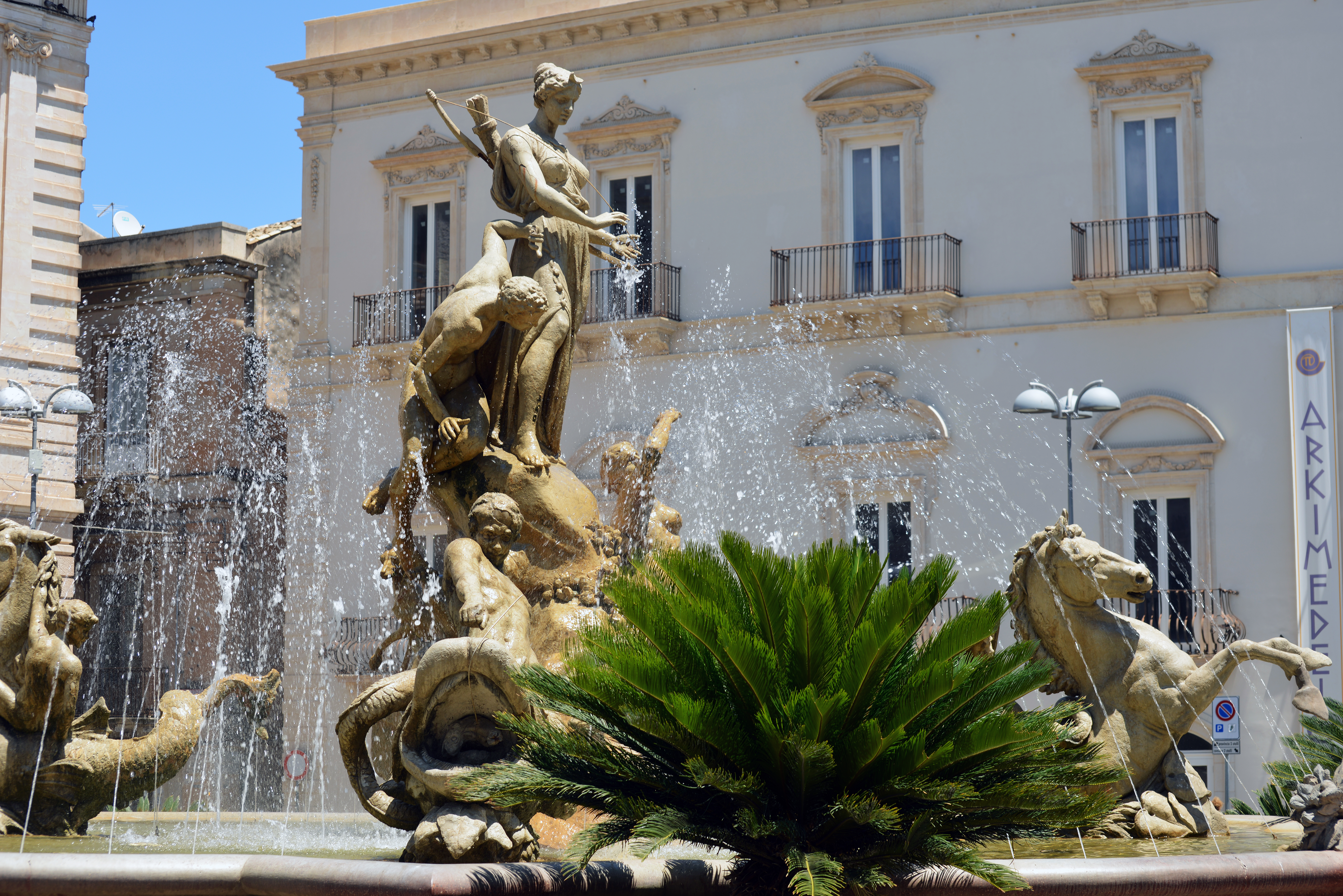 The Piazza Archimede / At the center of the piazza is the Fountain of Diana by Giulio Moschetti (1906), dedicated to the myth of the nymph